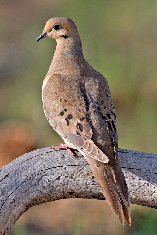 Mourning Dove, Cabin Lake Viewing Blinds, Deschutes National Forest, Near Fort Rock, Oregon